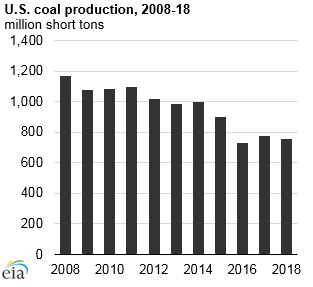 EIA estimates that total 2018 U.S. coal production was 755 million short tons (MMst), 20 MMst less than in 2017 and 36% less than in the previous decade. In 2018, coal prices rose in three of the five major coal-producing regions. January 25, 2019